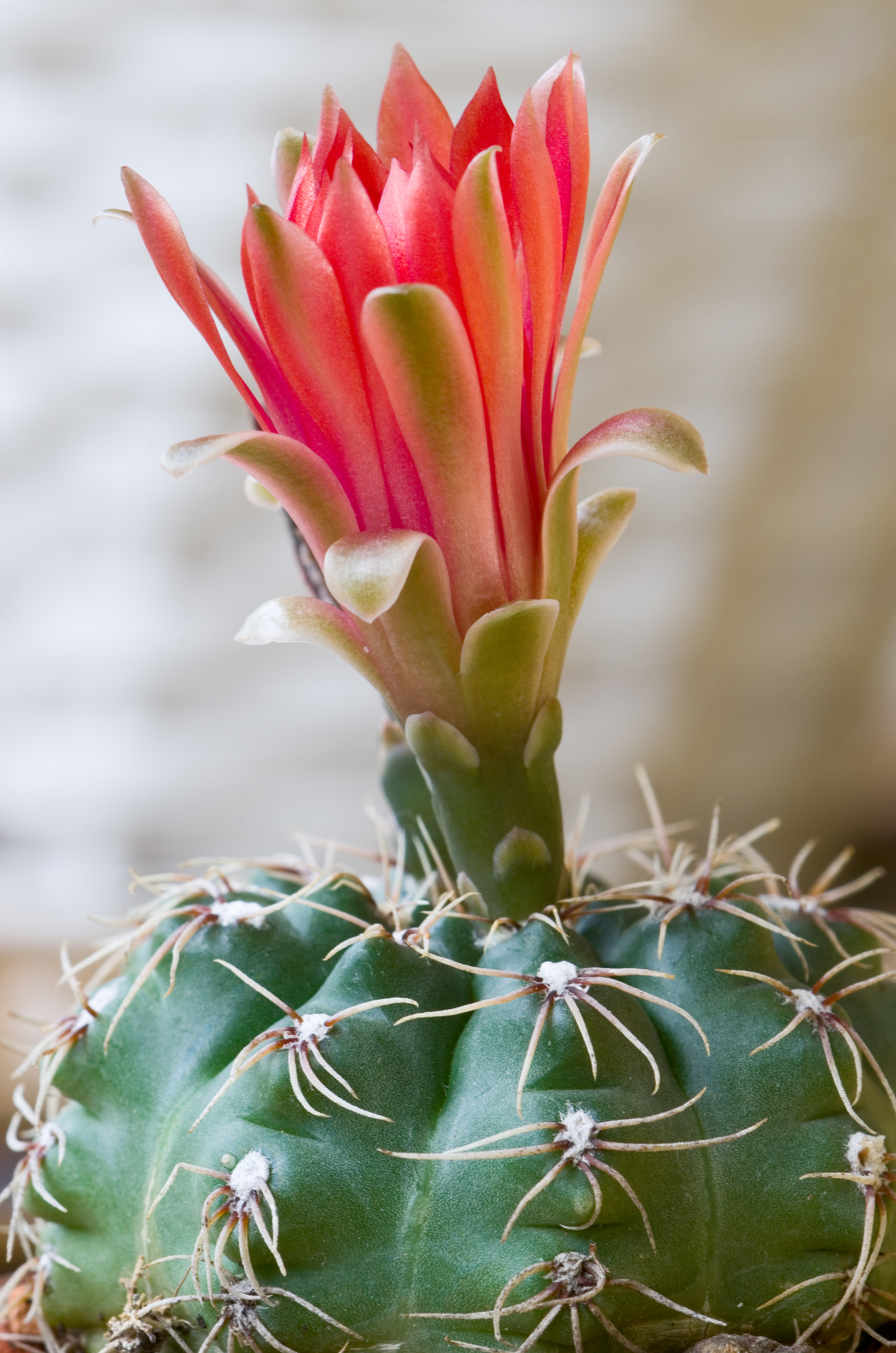 Gymnocalycium baldianum with red flower